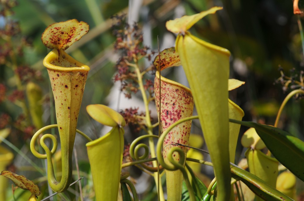 This picture of Nepenthes has been taken in Lokaro, near Fort Dauphin in Madagascar.